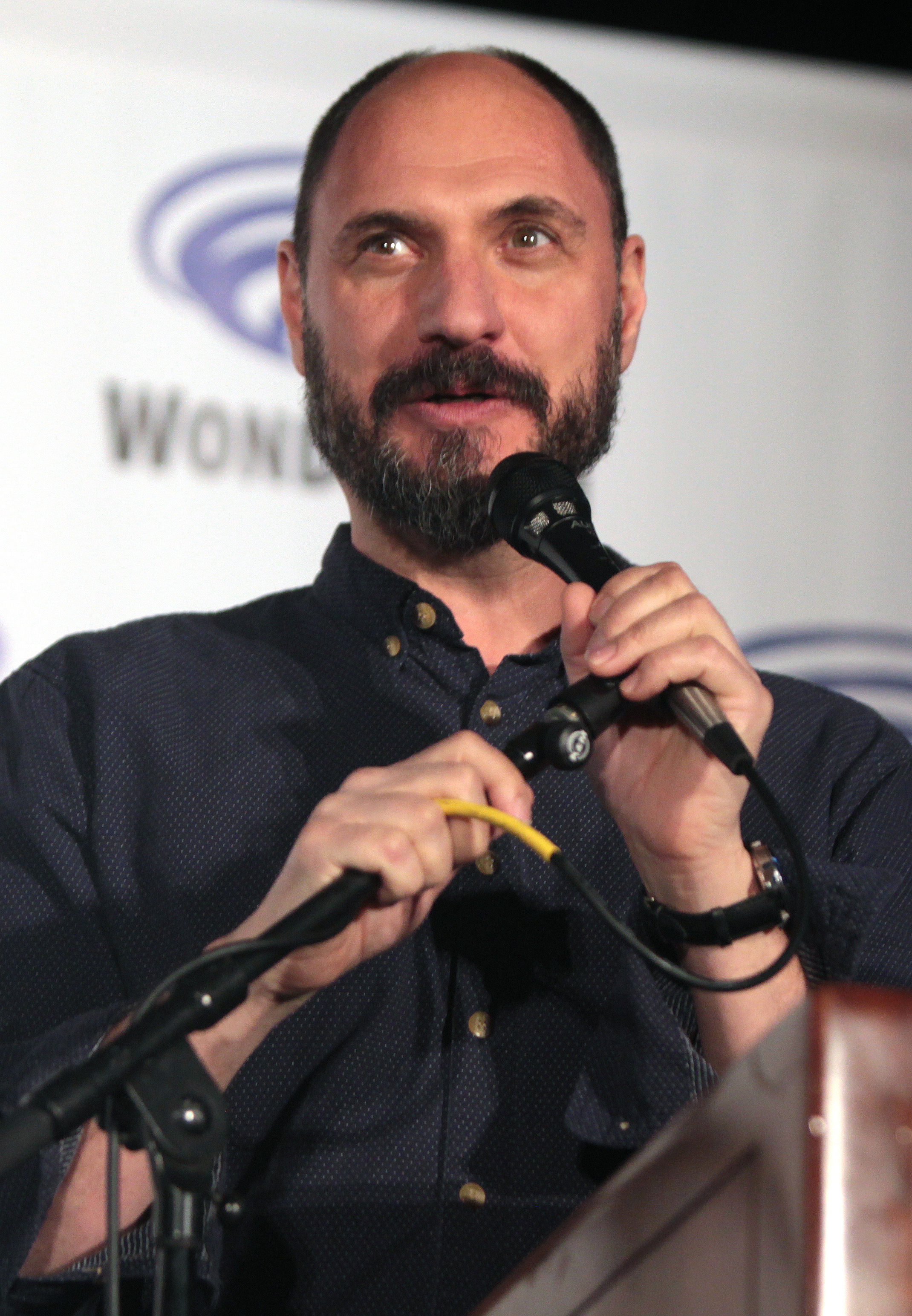 Loren Bouchard speaking at the 2016 WonderCon in Los Angeles, California.